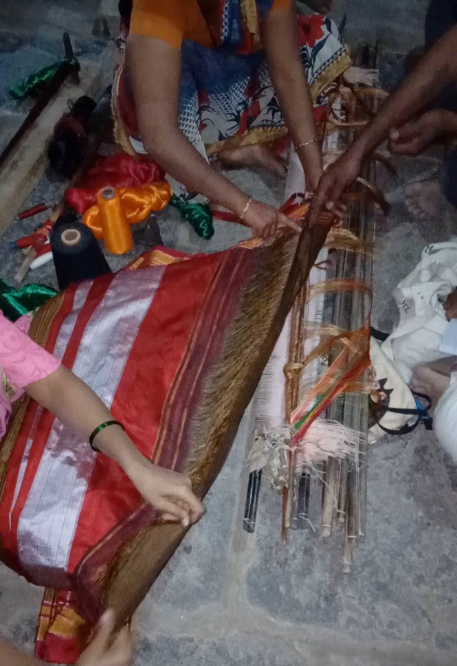 Women weaving ilkal saree in The Handmade March